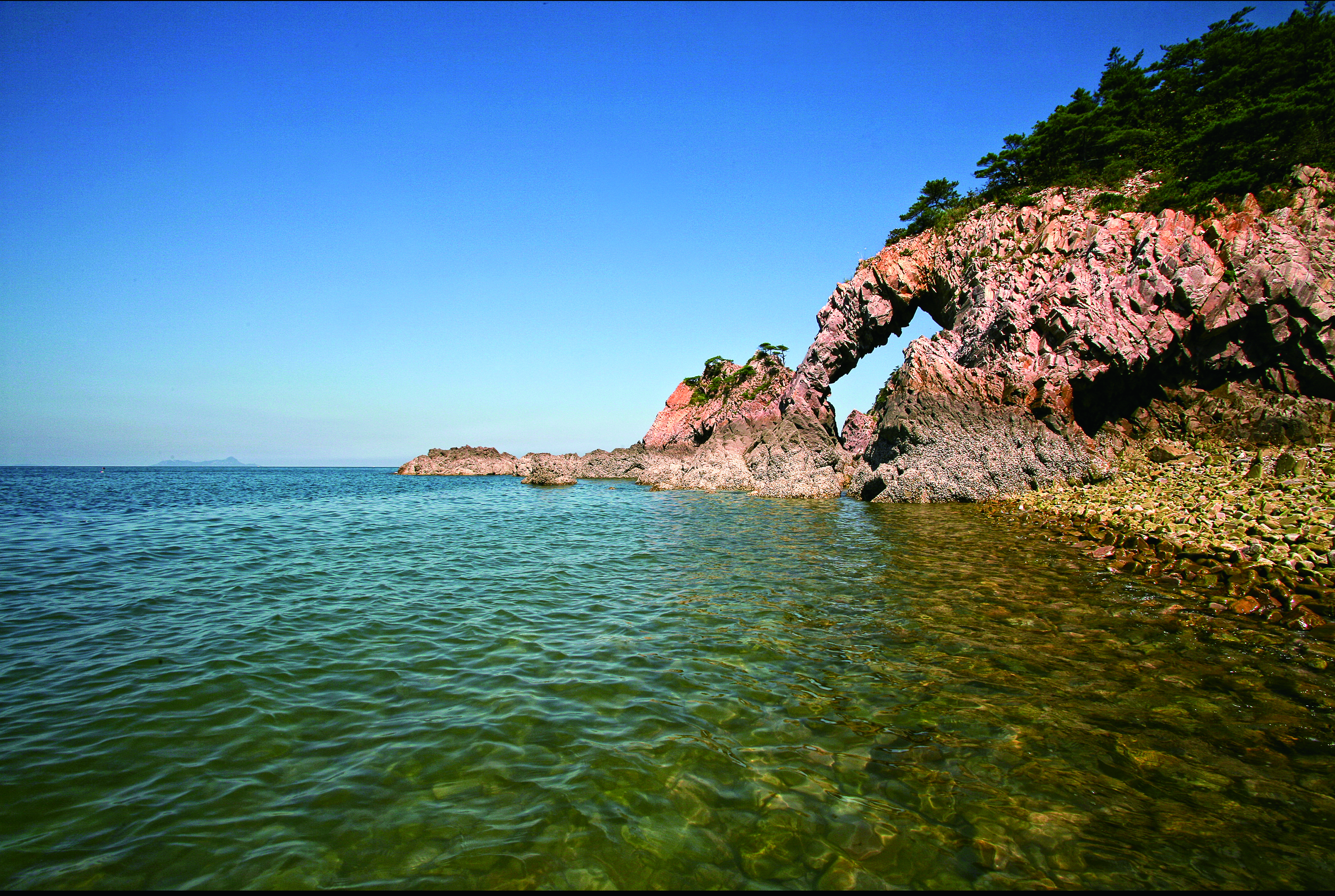 Hwangguem Mountain